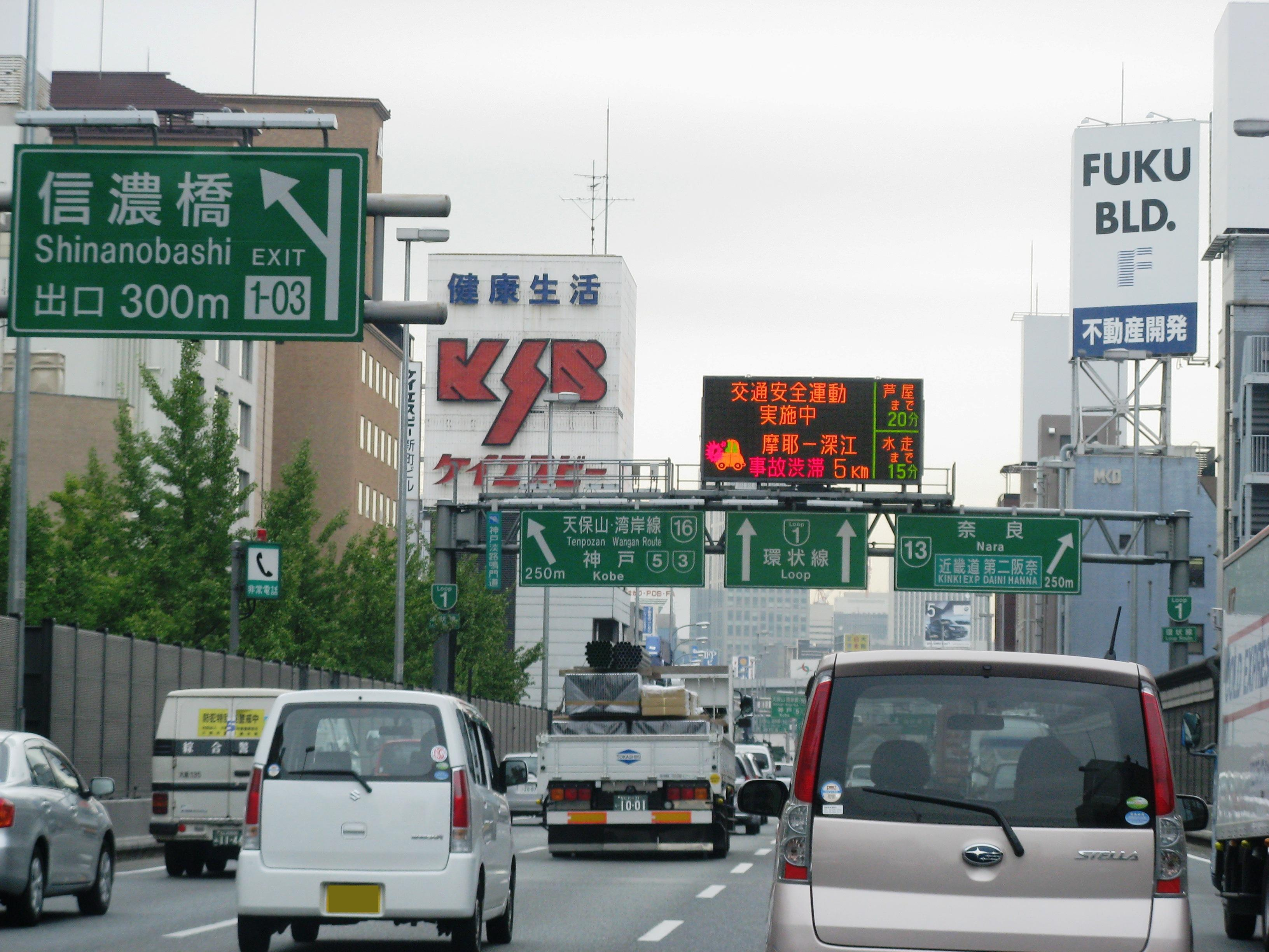 Route 1 Loop Route of Hanshin Expressway, Osaka. Taken with a Canon PowerShot A720 IS.